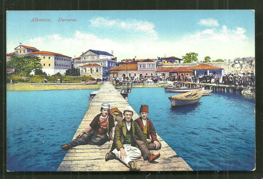 Durrës